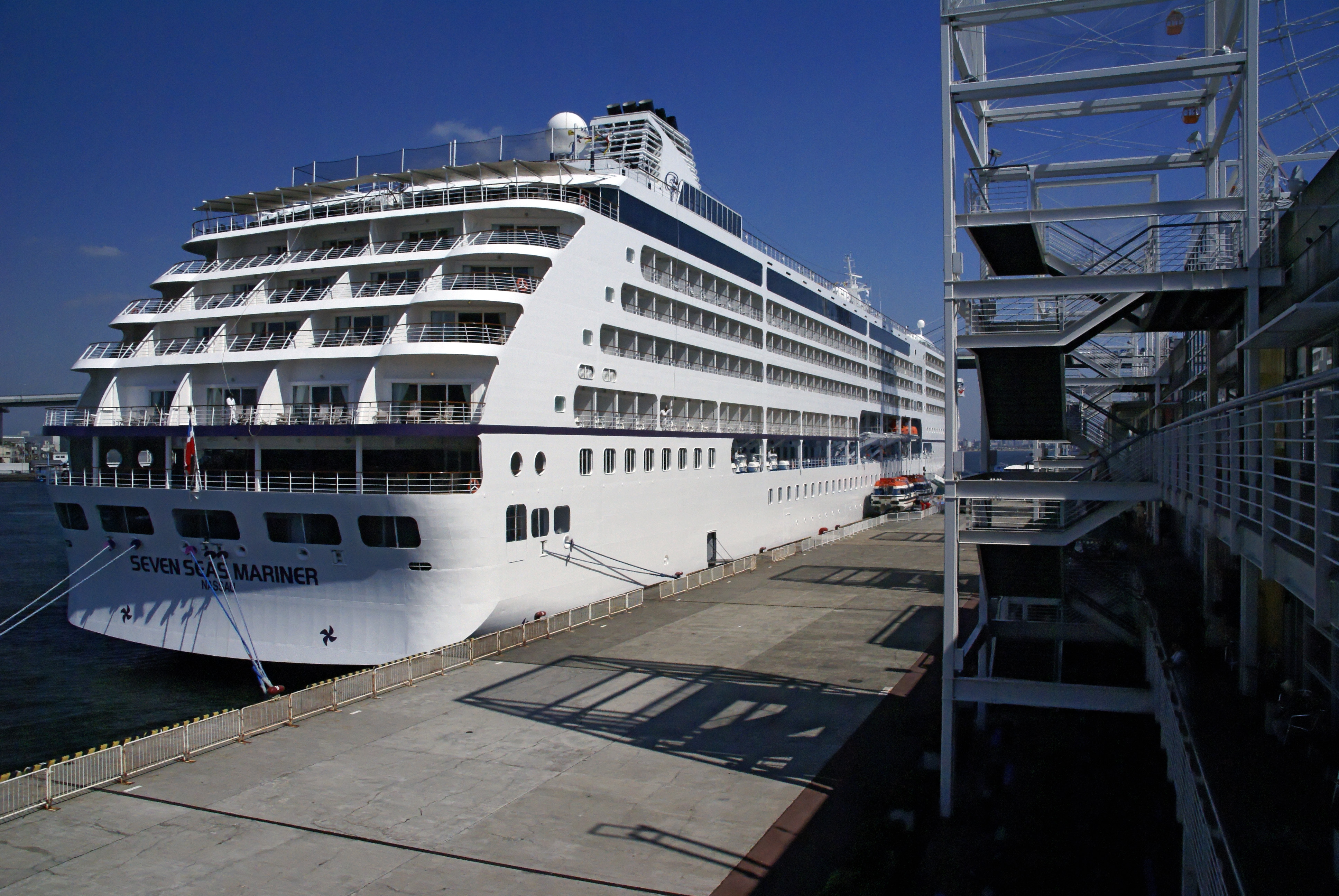 "SEVEN SEAS MARINER" at "Tenpozan Wharf" of the Osaka harbor ( Osaka, Osaka prefecture, Japan)